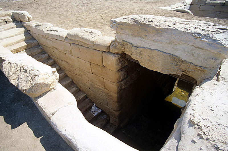 Nilometer in the the Temple of Amun, San el-Hagar (Tanis), Egypt